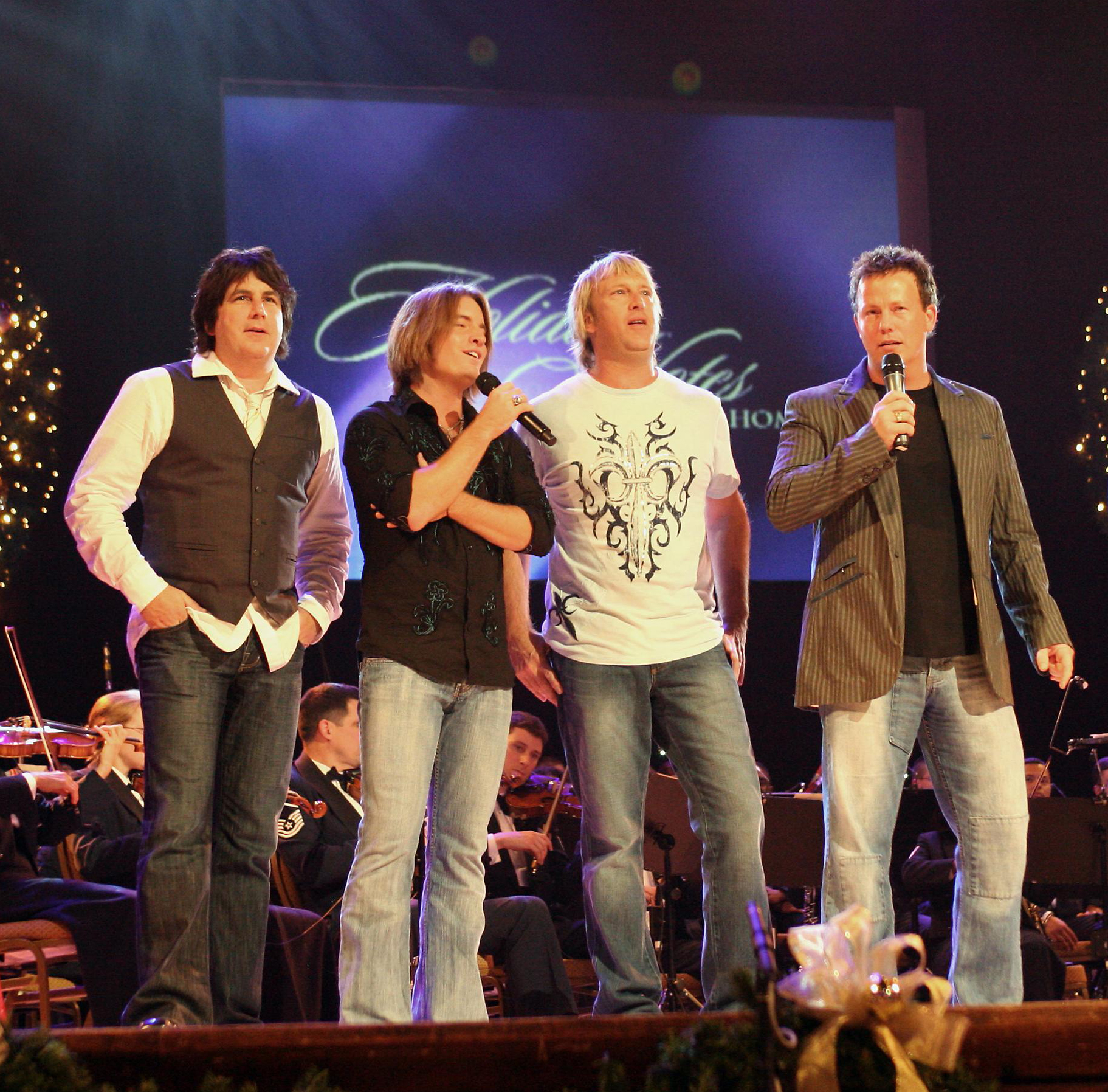 American country music band Lonestar at a Grand Ole Opry concert in 2007.